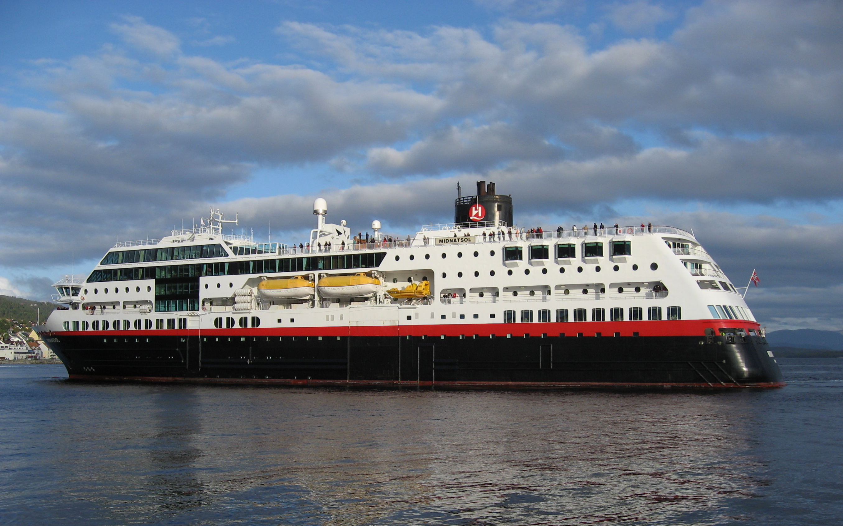 Norwegian coastal express ship (hurtigruten) MS Midnatsol, built in 2003.